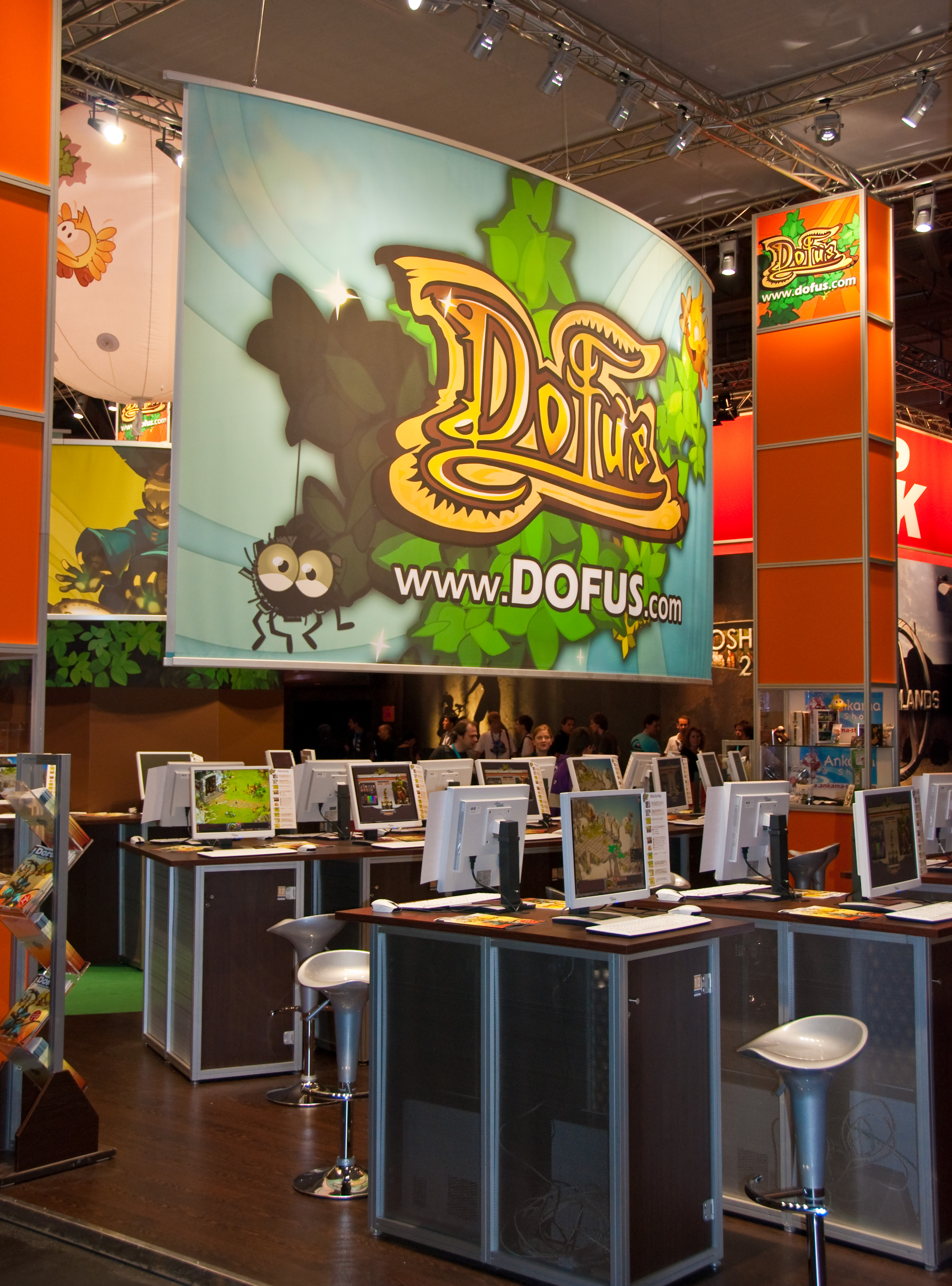 Dofus booth at GamesCom